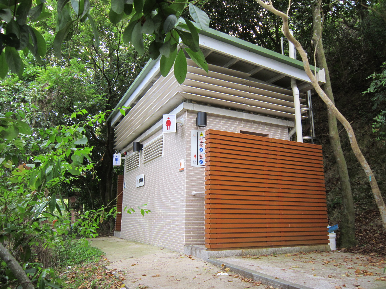 An aqua privy near Tseng Tau Pier after refurbishment中文（香港）: 翻新後的井頭碼頭旱廁